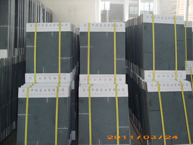 Sic/silicon carbide products/sic/silicon carbide slab/sic/silicon carbide kiln furniture/sic plate/silicon carbide slab/ can offer good heat stability, high mechanical strength at high temperature, excellent thermal stability and distortion resistance at high temperature. Sic/silicon carbide products/sic/silicon carbide slab/sic/silicon carbide kiln furniture/sic plate/silicon carbide slab/ can be used in daily ceramics widely, such as reinforced ceramics, white ceramic and high-class ceramics. Through the burning of 1400℃, its products can offer mild, bright and white enamel feeling, Sic/silicon carbide products/sic/silicon carbide slab/sic/silicon carbide kiln furniture/sic plate/silicon carbide slab/ can save the energy and increase the volume of kiln therefore Sic/silicon carbide products/sic/silicon carbide slab/sic/silicon carbide kiln furniture/sic plate/silicon carbide slab/ can increase the efficiency and economy. At the same time, Sic/silicon carbide products/sic/silicon carbide slab/sic/silicon carbide kiln furniture/sic plate/silicon carbide slab/ is harmless to environment.